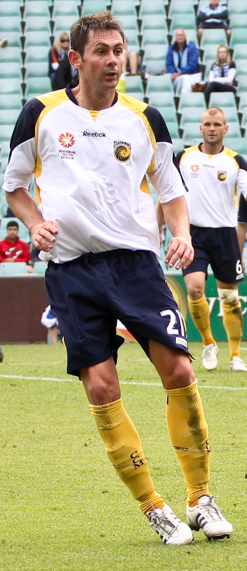 Andrea Merenda playing for Central Coast Youth against Sydney FC youth